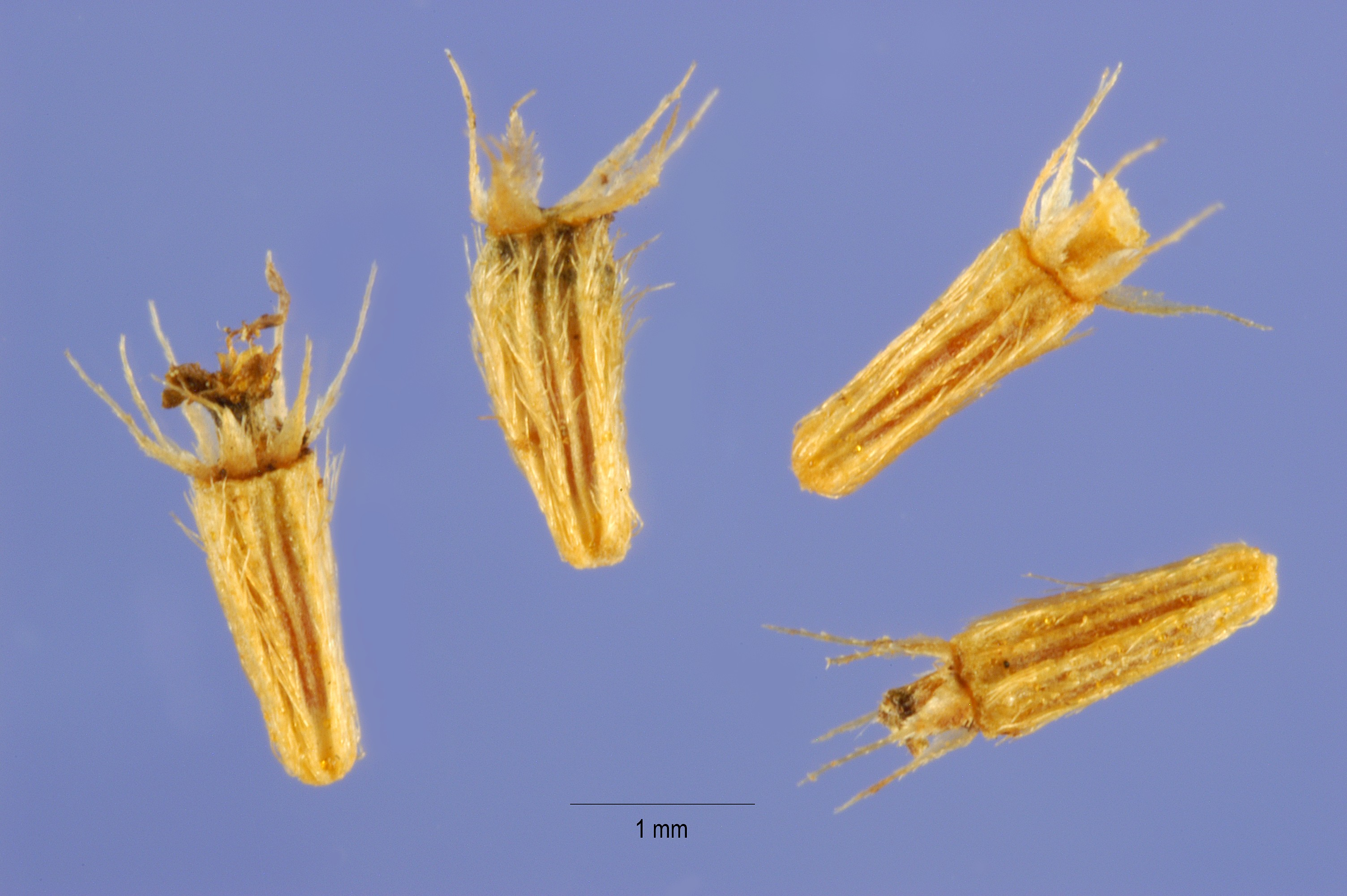 seeds of Helenium autumnale, common sneezeweed